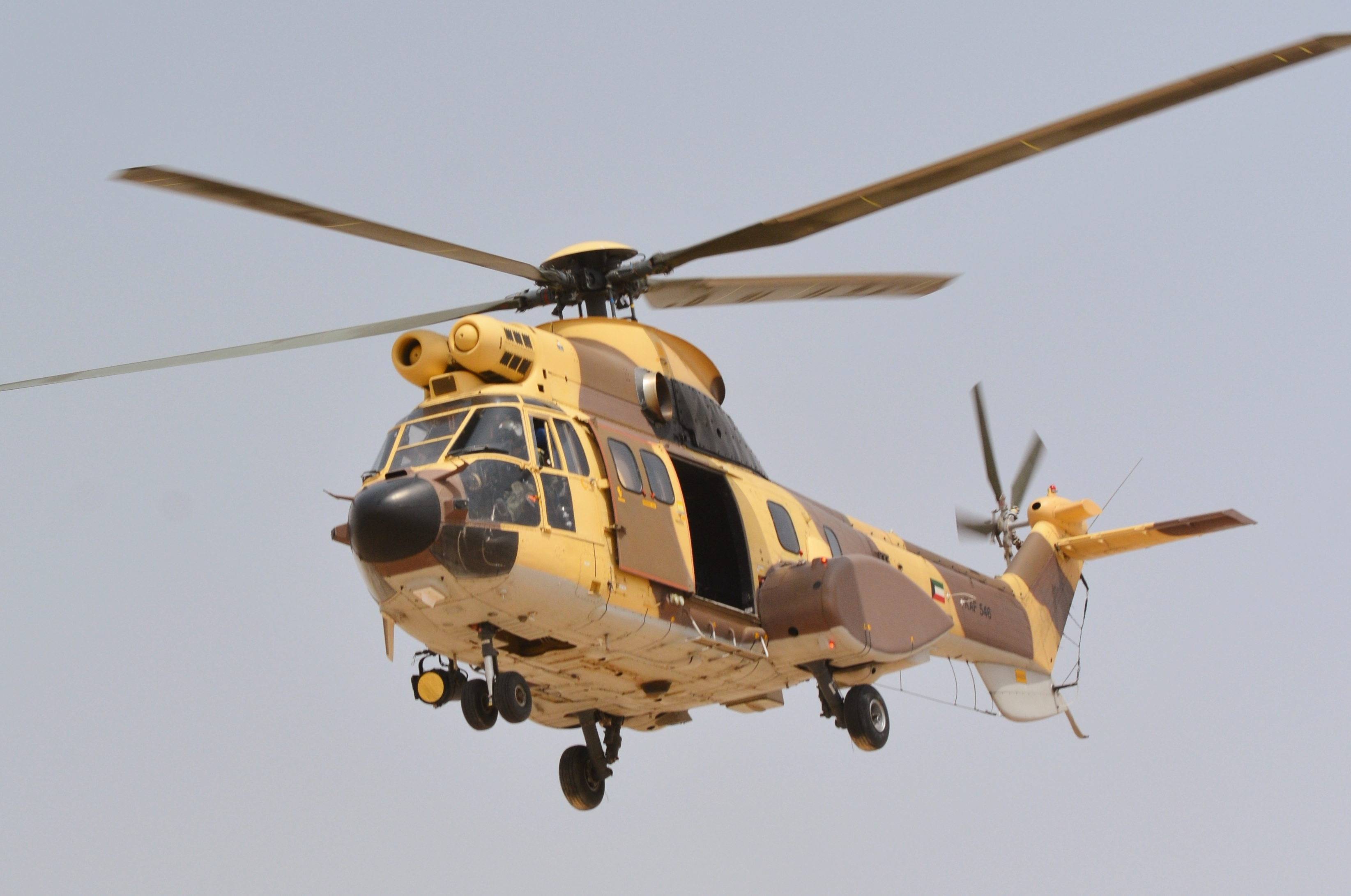 Kuwait- A AS332, Super Puma, helicopter drops off troops before a large crowd of foreign and U.S. dignitaries view teams from their combined special forces- Qatar, Kuwait, Saudi Arabia and the United States, during an explosive training mission proving the successful interoperability of both land and air assets as well as highlighting the vast skills of the varied partner nations part of Operation Eagle Resolve, April 2. (Photo by Army Sgt. 1st Class Suzanne Ringle/Released)